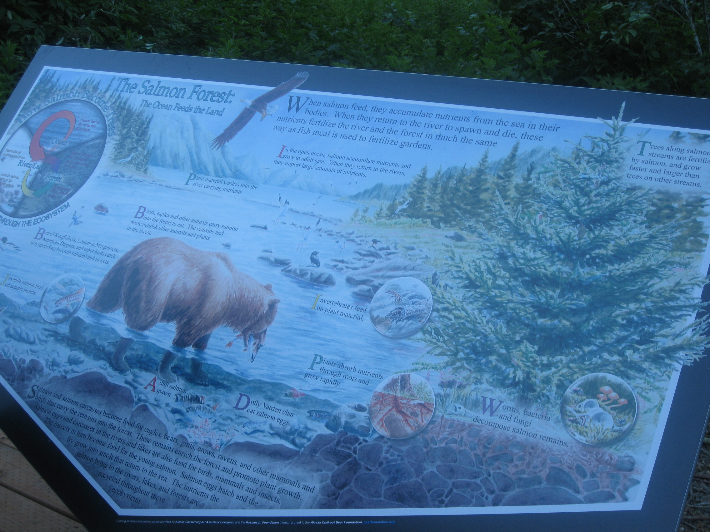 Plaque with deatils of Deer park fauna and flora